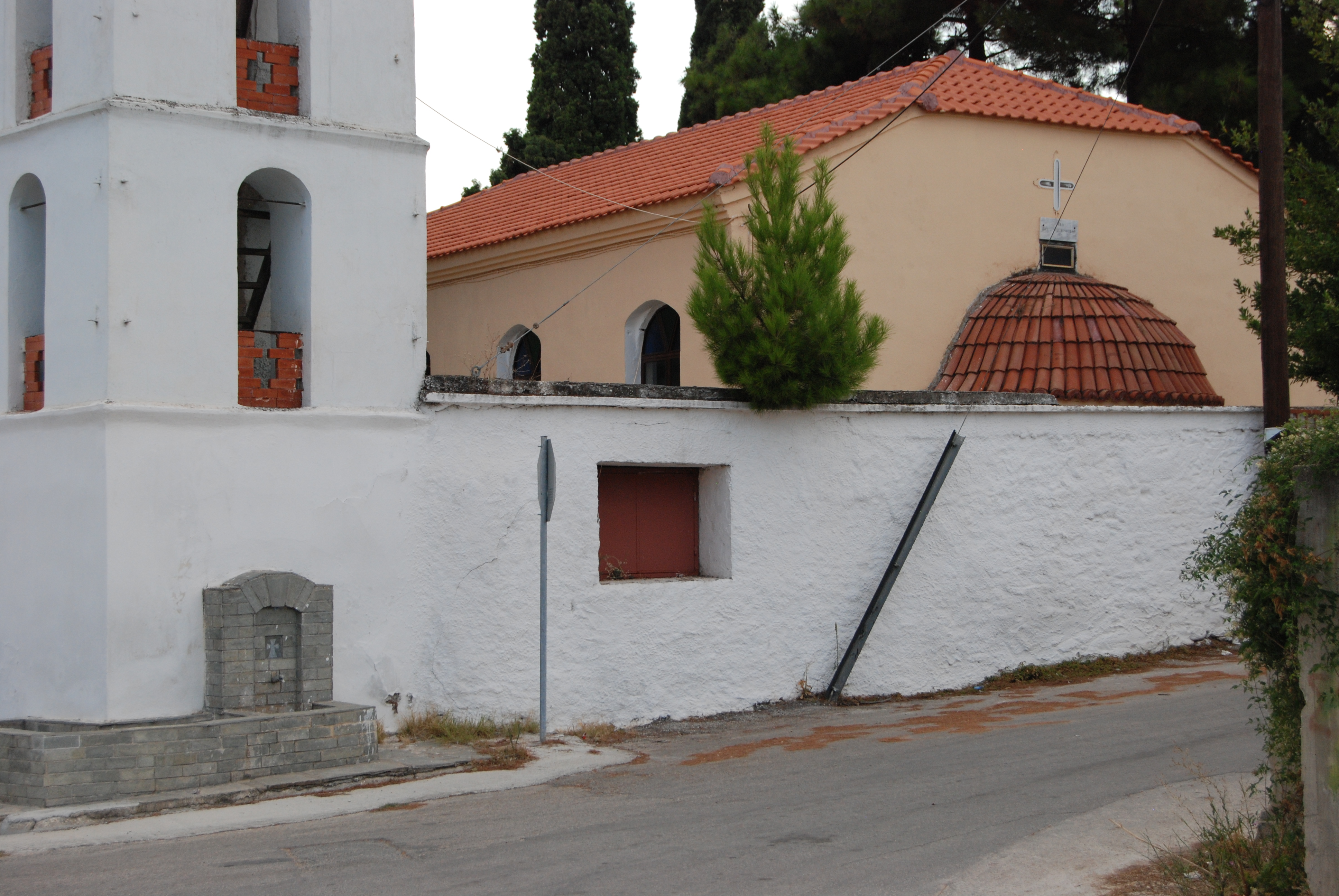 The cemetery church of Virgin Mary Life-Giving Spring in the village of Chryso, Serres district, Greece